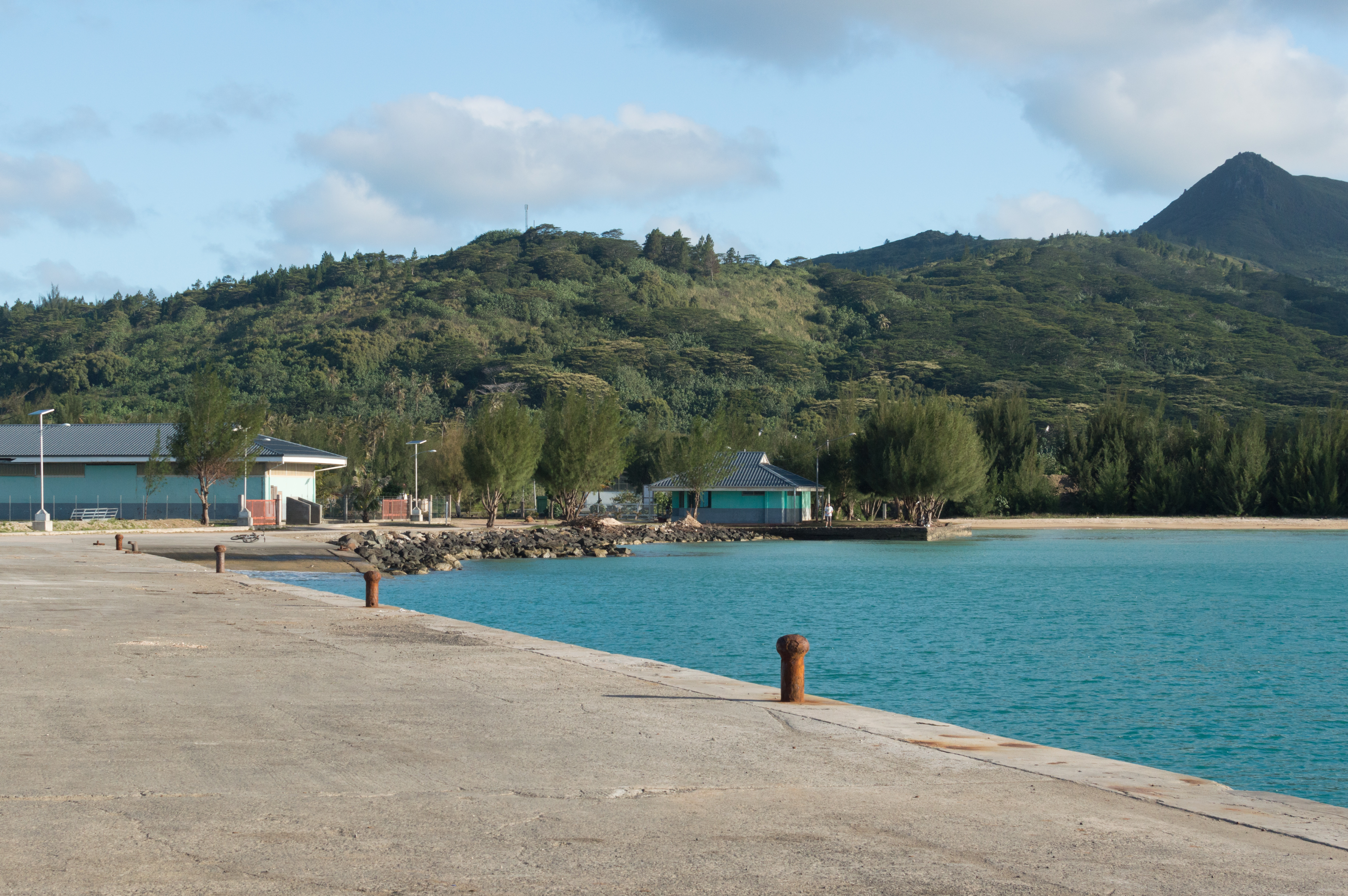 Photograph of the wharf of Mataura (Tubuai, French Polynesia).